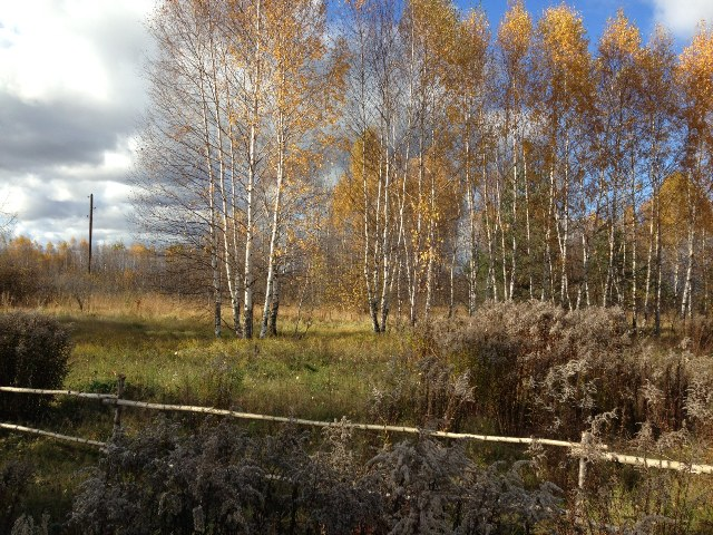 Княжево